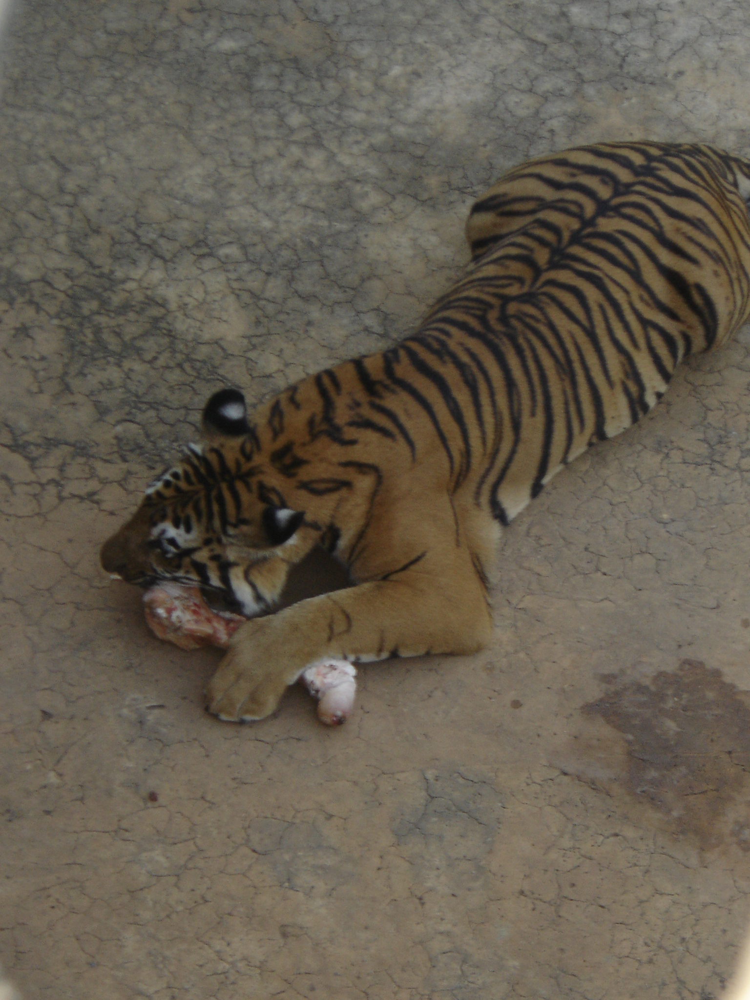 Bengal Tiger (Panthera tigris tigris) eating. In Brasilia's Zoo.